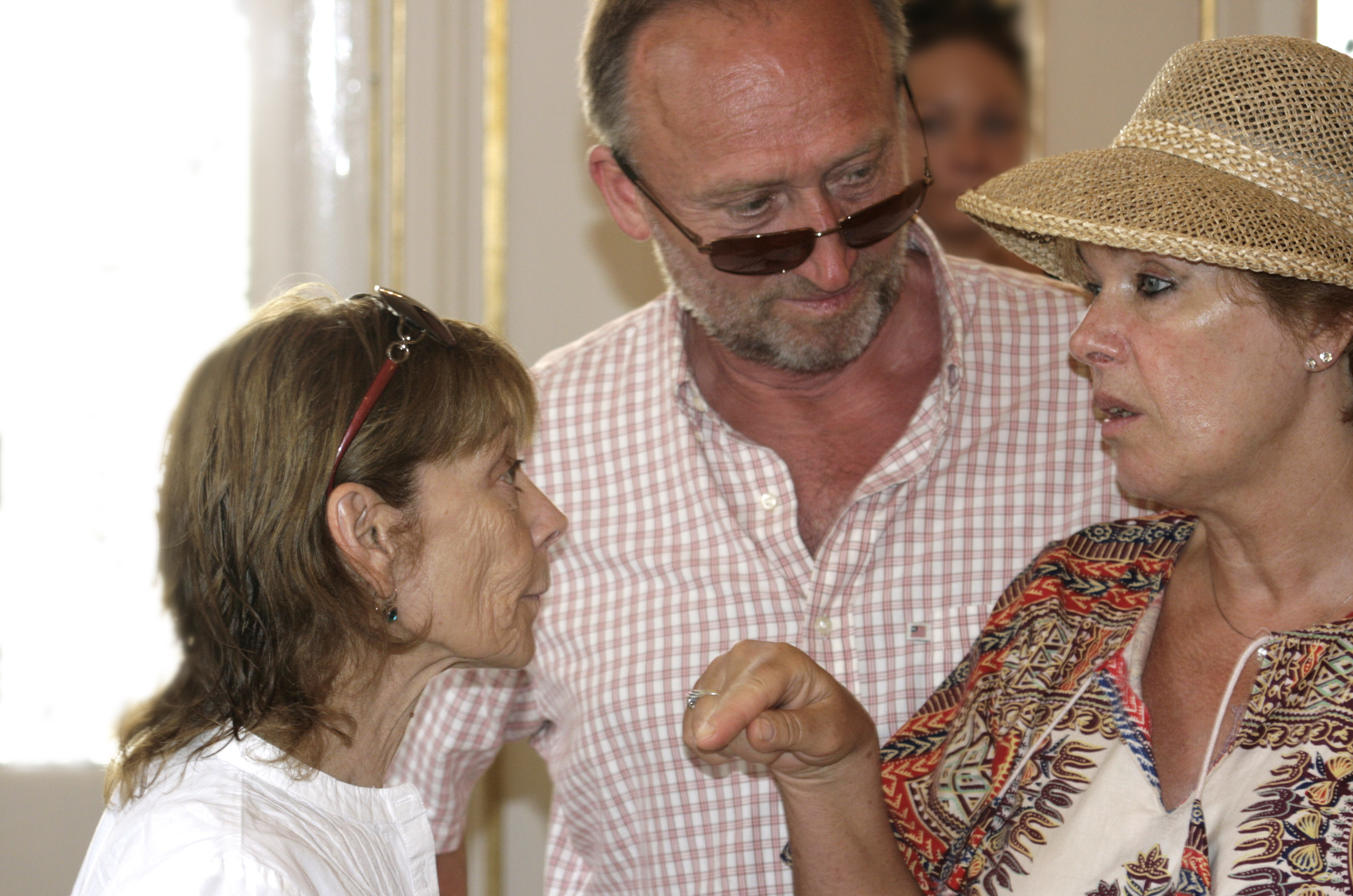 Venczel Vera and Balazs Blasko and Kinga Sarossy - Hungarian Actress 2015 - Pecs Theatre Festival